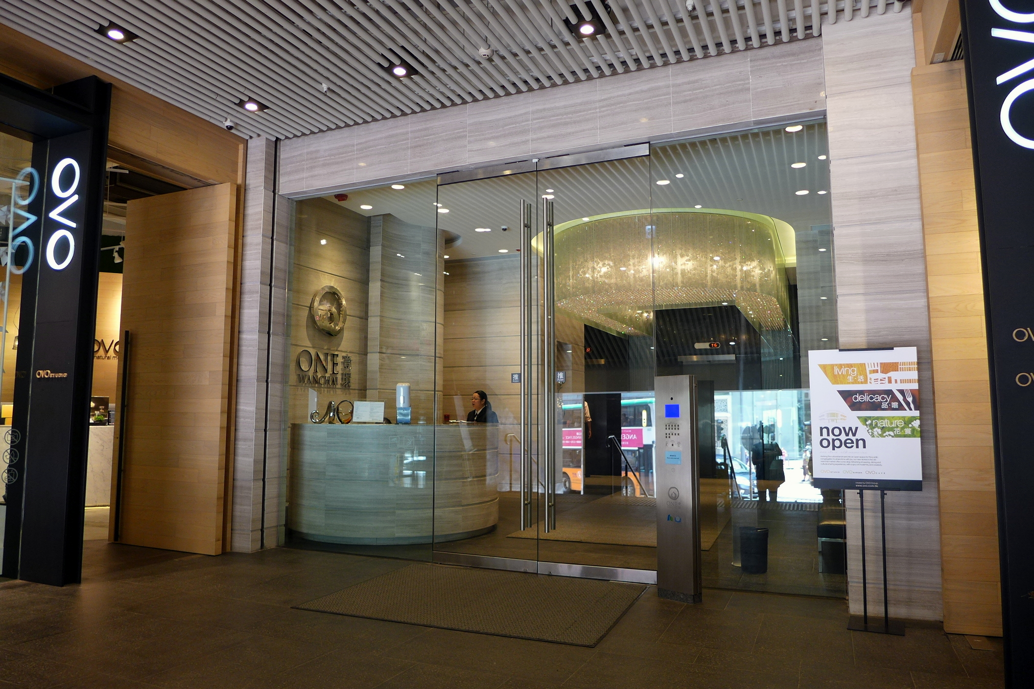 One WanChai Entrance